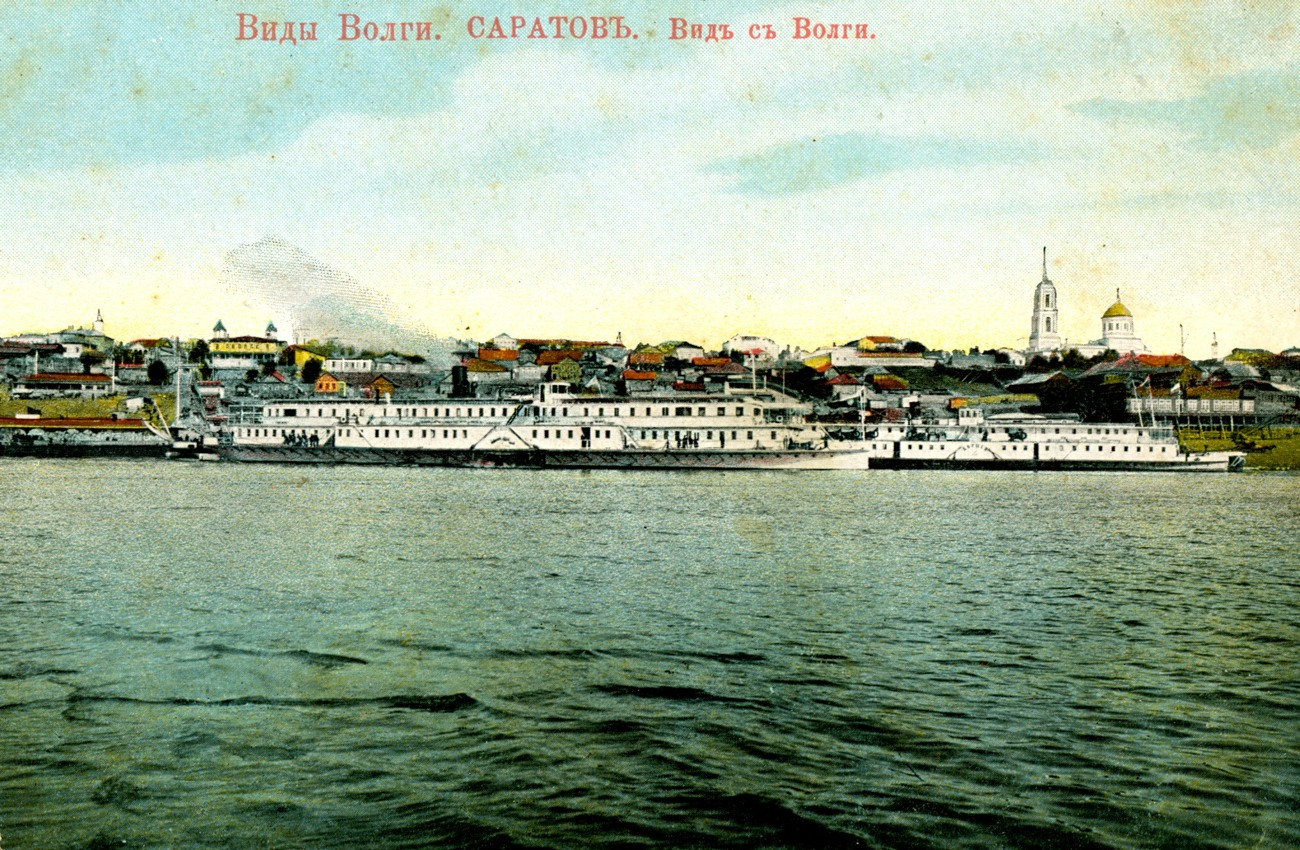 Saratov. View from the Volga